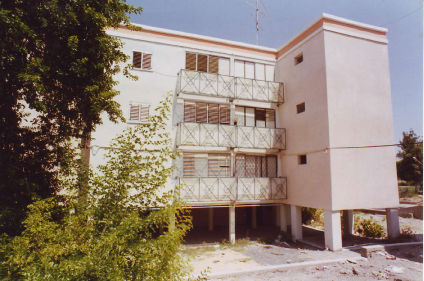 Modern Apartment Building in Bet She'an